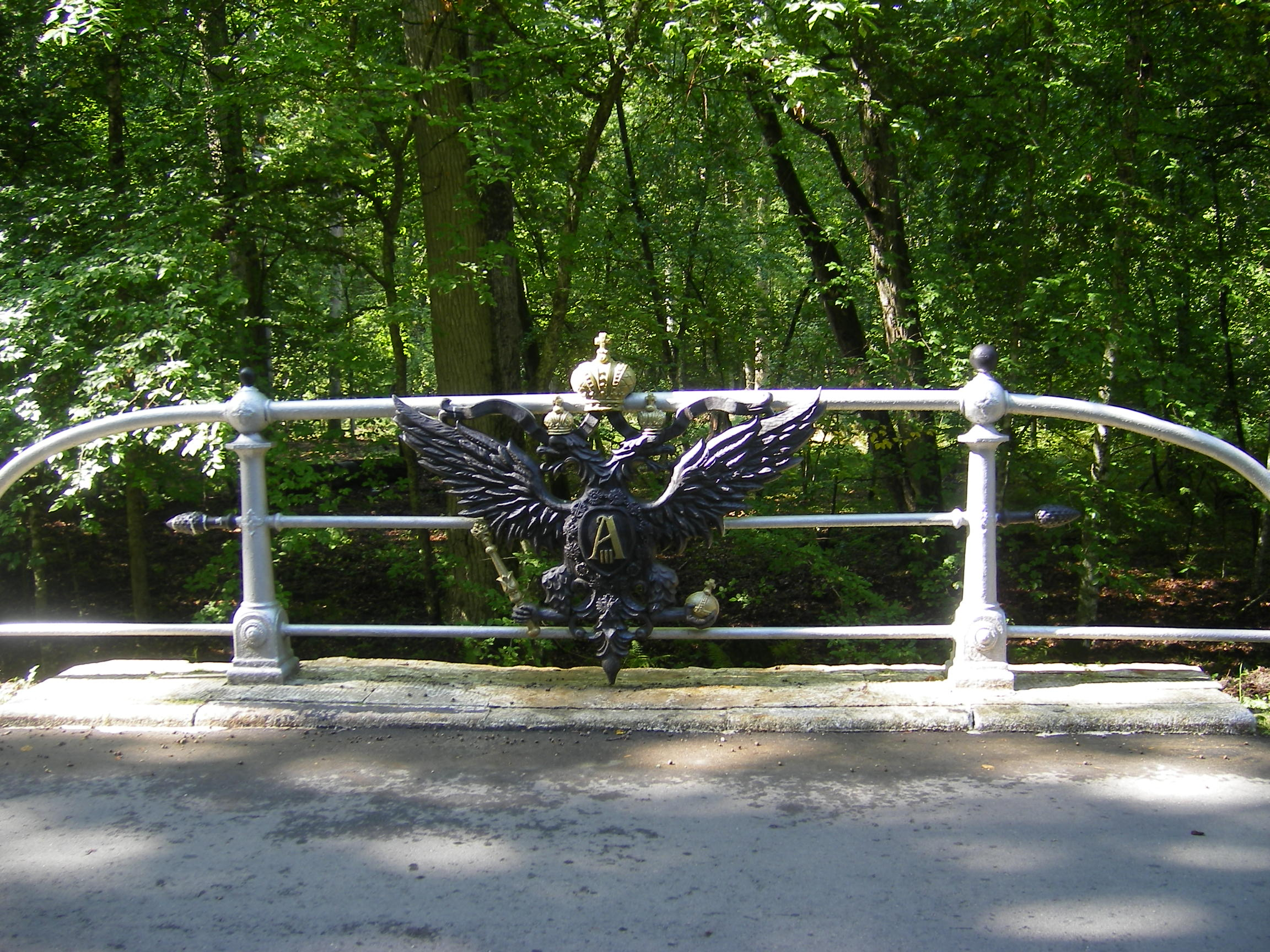 Old Russian arms in the route P81 in Belavezhskaya Pushcha NP